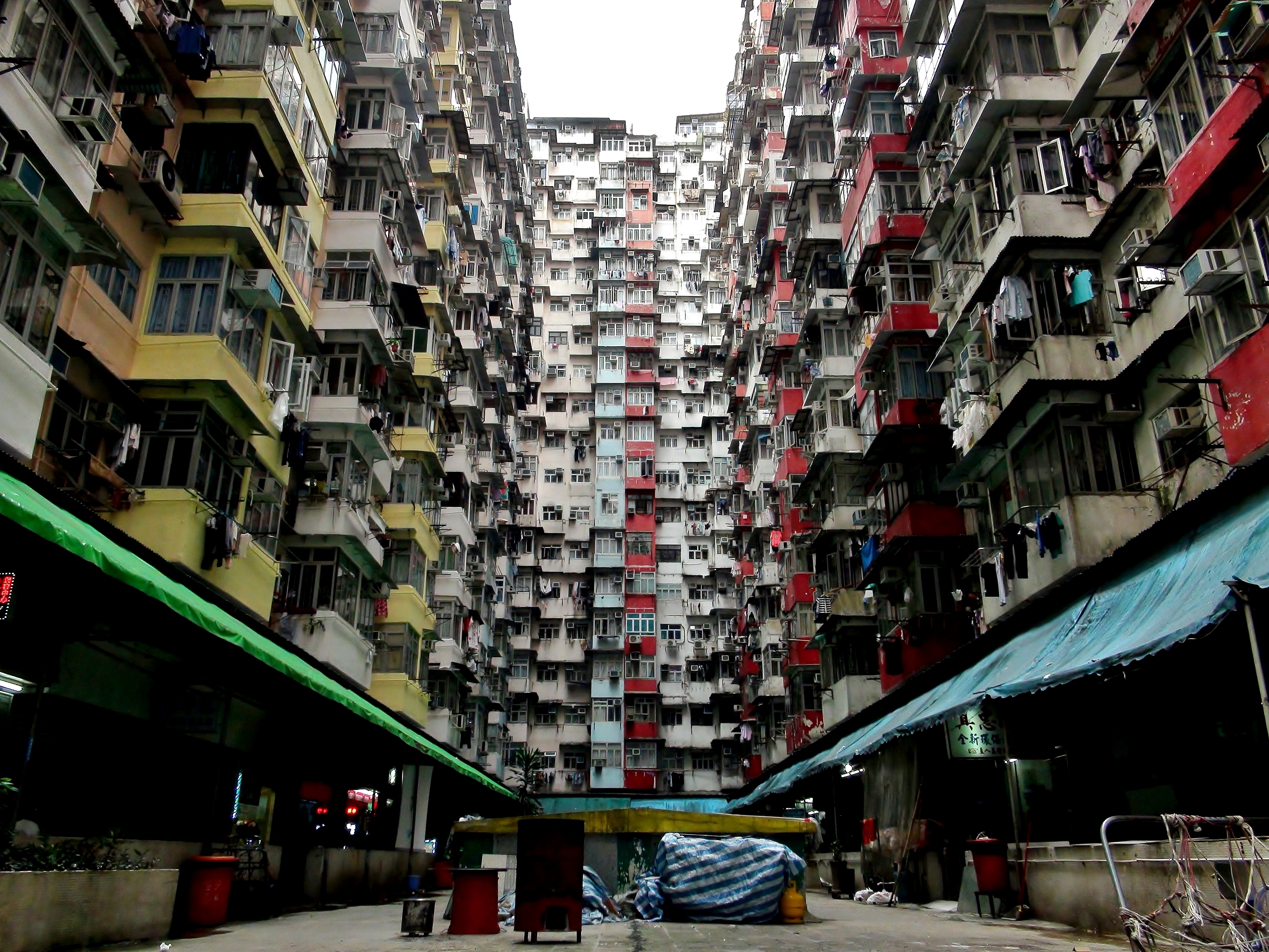 Yick Cheong Building and Yick Fat Building Quarry Bay Hong Kong.